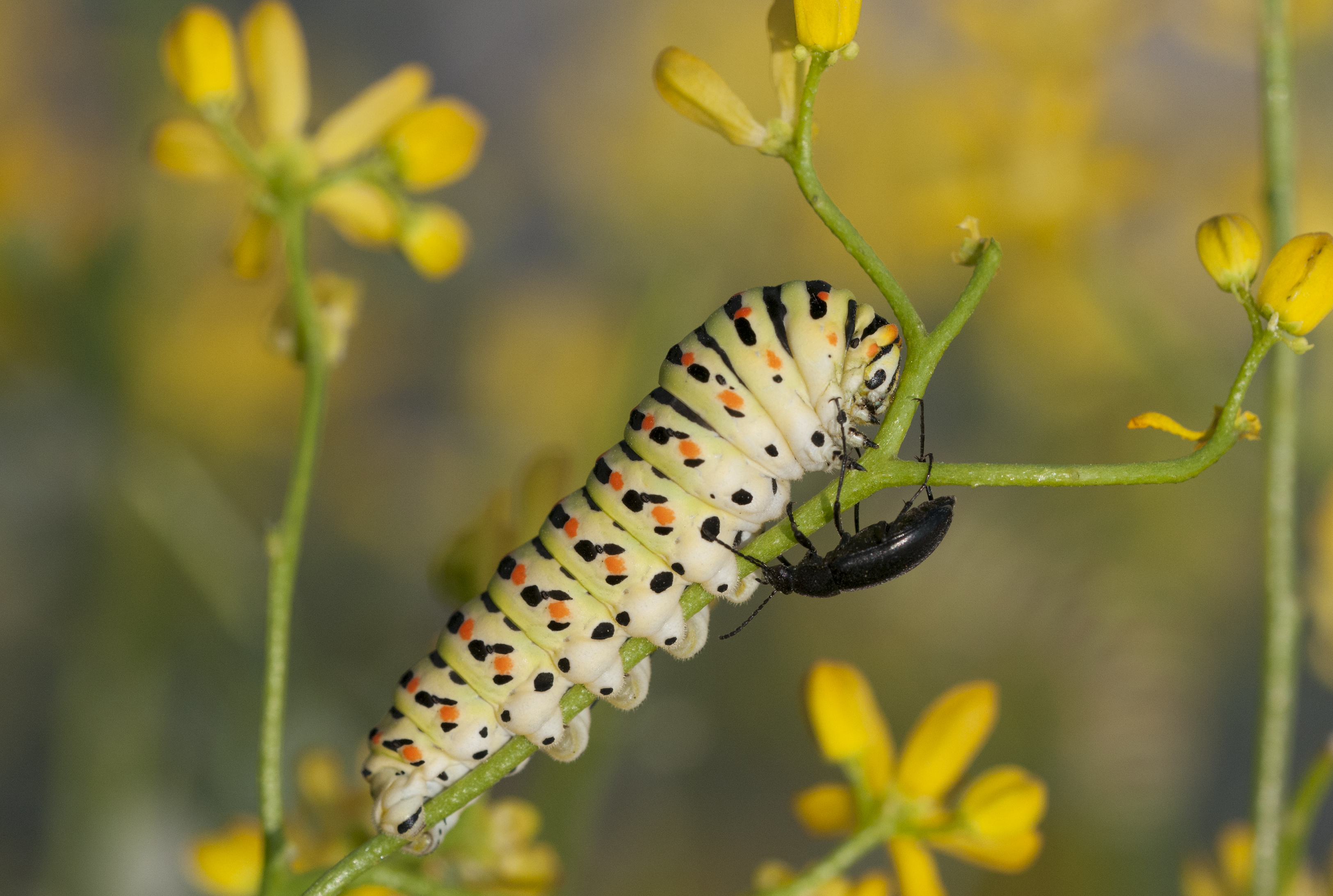 A larva of Old World Swallowtail (Papilio machaon). Balcalı, Adana - Turkey.